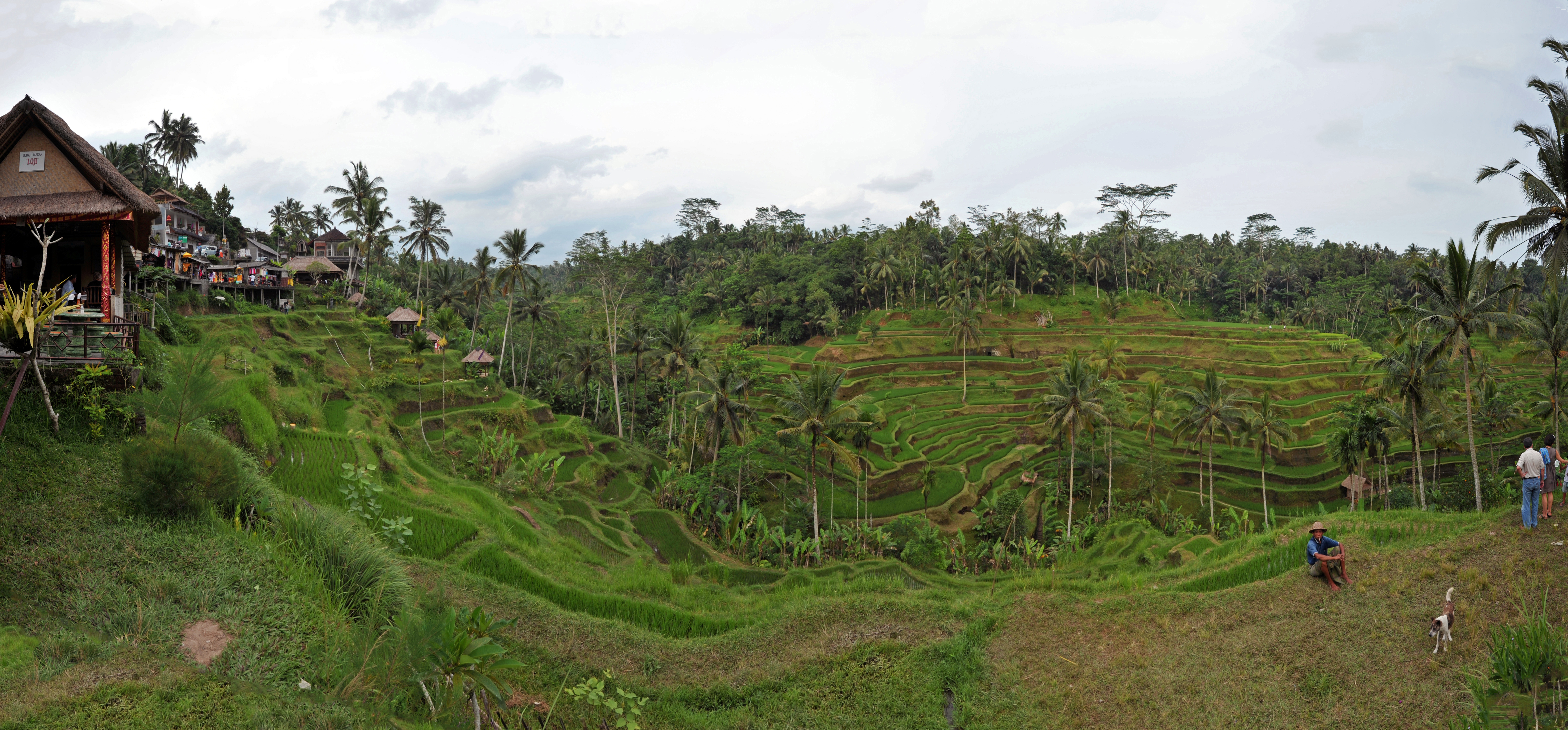 Tegalalang rice terrace Ubud Bali 2011 panorama